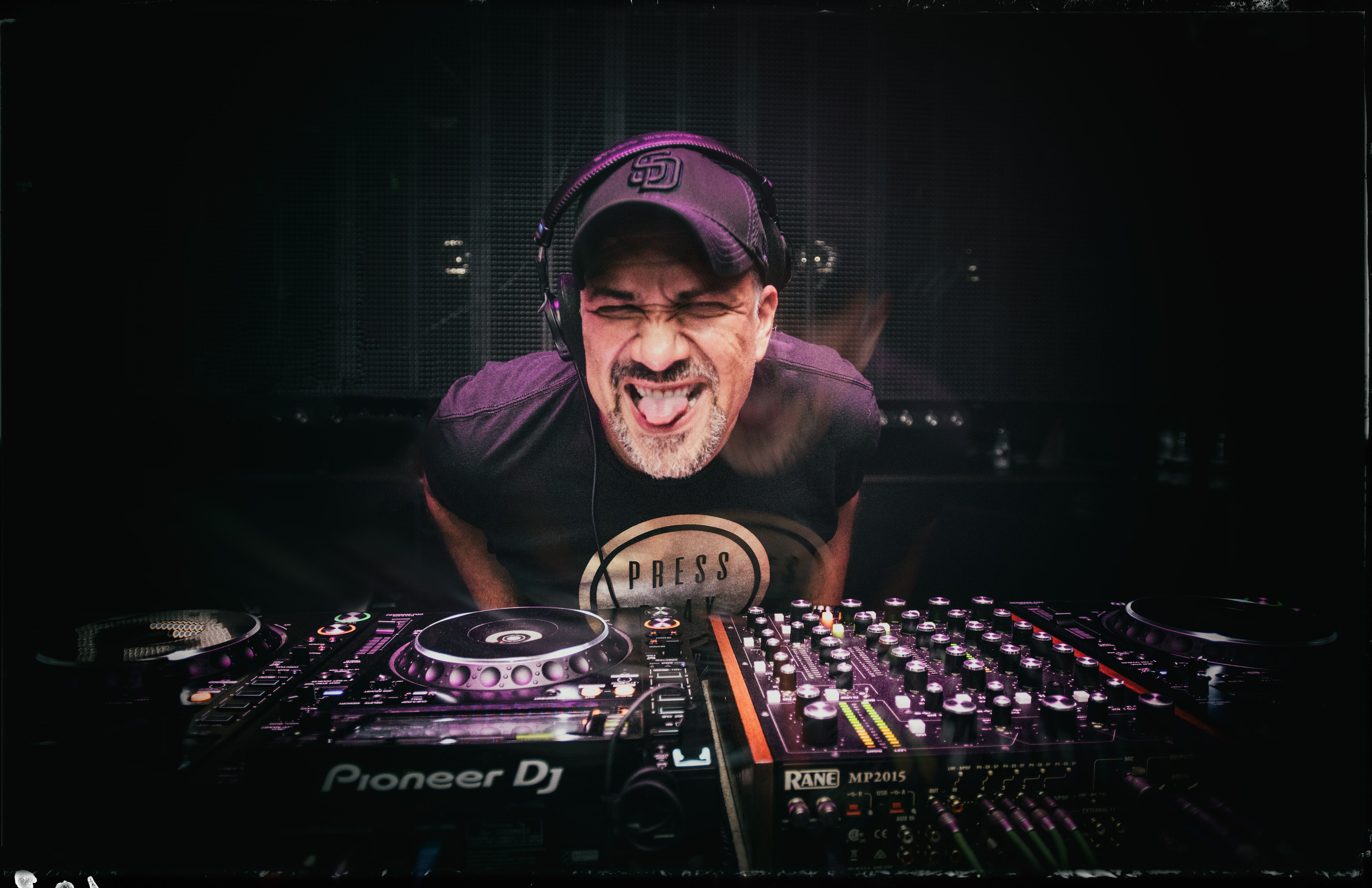 Ralphi Rosario at Ministry of Sound 2017